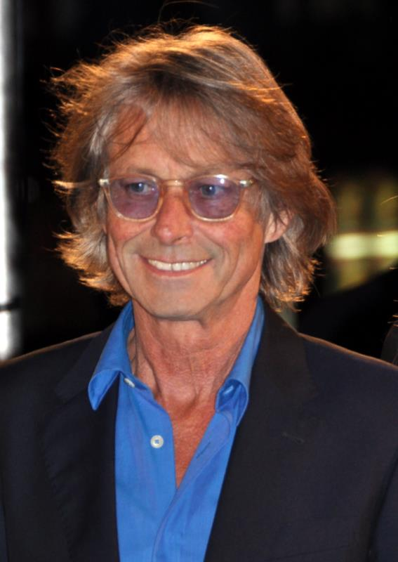 Bruce Robinson at the premiere of The Rum Diary in Paris